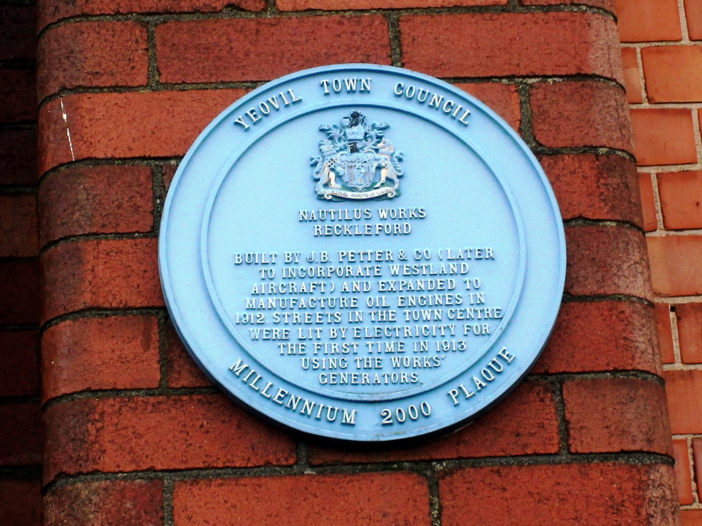 Petters Limited built the Nautilus Works in the Reckleford district of Yeovil, Somerset, in 1912. The building was sold to the Western National Omnibus Company in 1921 and converted into a bus garage.